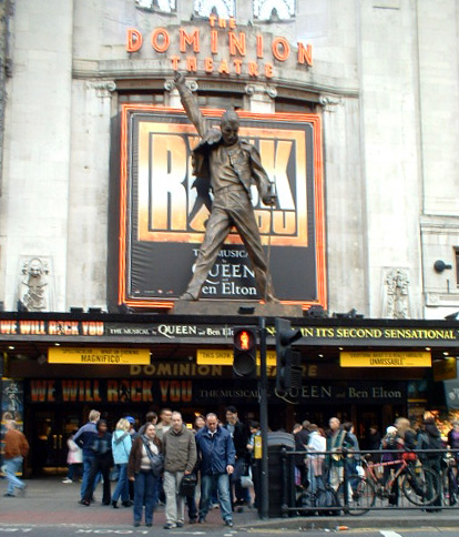 dominion theatre (London) taken by C Ford 15/11/03.